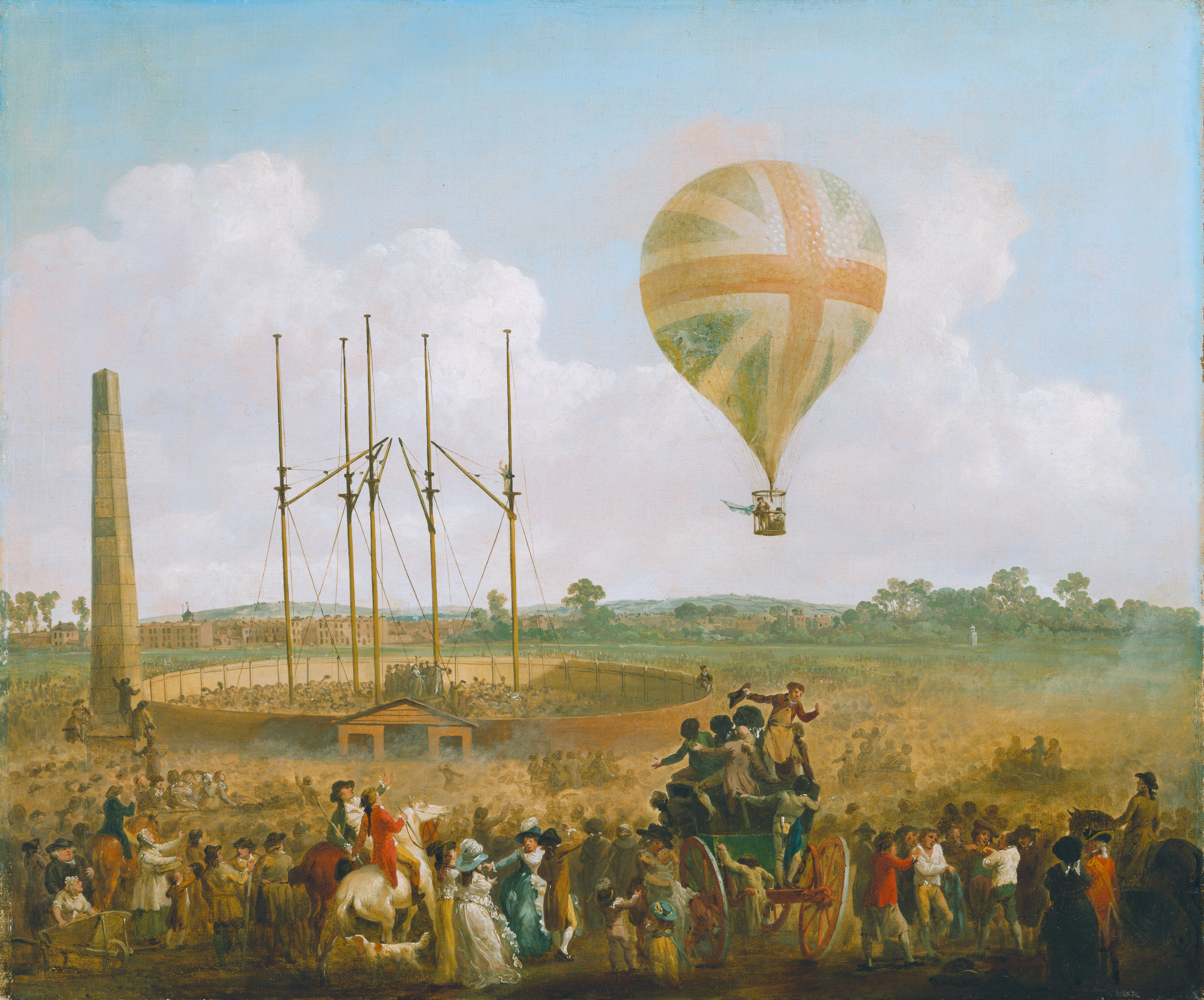 George Biggins (standing) and Mrs. Sage (seated) in an ascent in Vinzent Lunardi' balloon. A large crowd outdoors including horses and carriages is shown in the foreground. Apparatus for holding the balloon in place before launch is shown to the left.